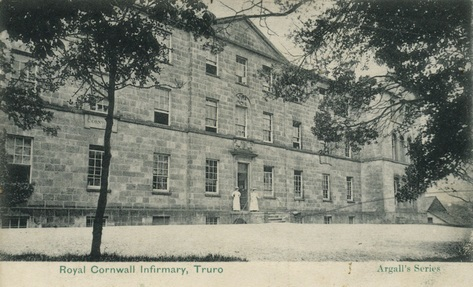 Old Postcard of the Royal Cornwall Infirmary, Truro